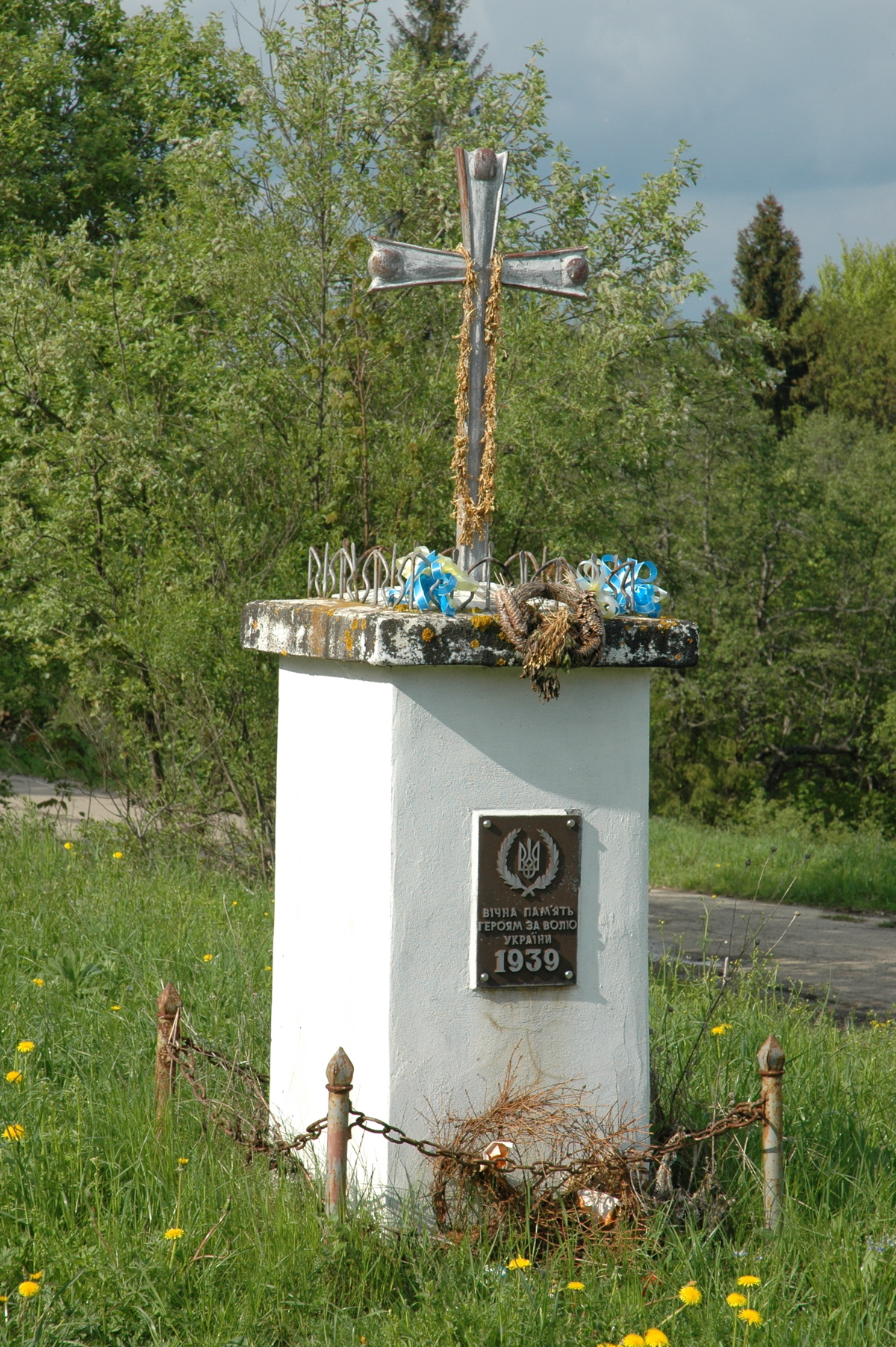 Monument of Sich warriors on the Veretskyi Pass